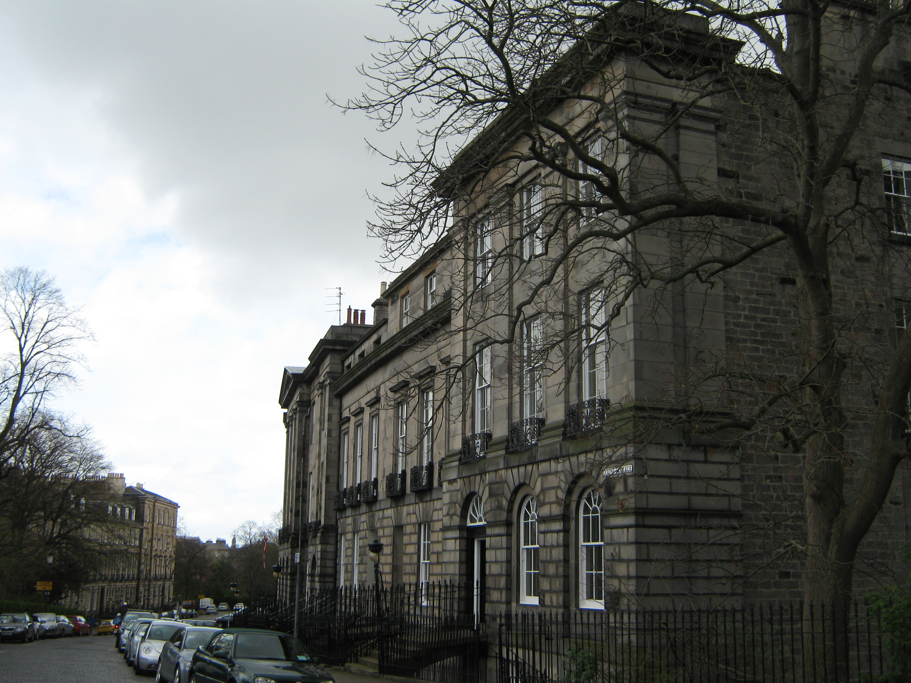 Doune Terrace, Edinburgh. Scotland. Location (OSM permalink)